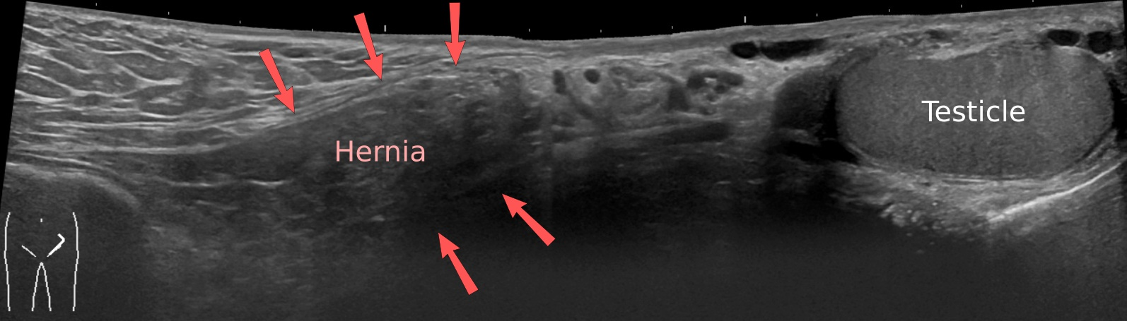 Medical ultrasonography of a 67 year old man who had pain in his left groin. It shows an indirect inguinal hernia containing fat (arrows). The testicle is seen at right.